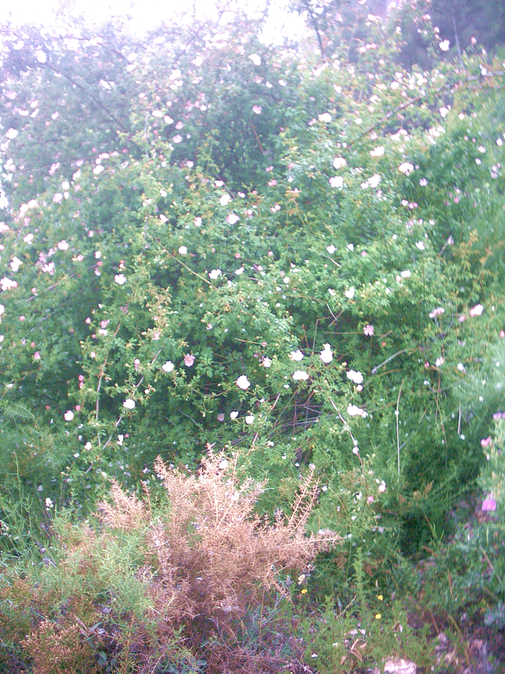 Rosa pimpinellifolia habitat, Sierra de la Alfaguara, into Parque Natural de la Sierra de Huétor, Granada, Spain